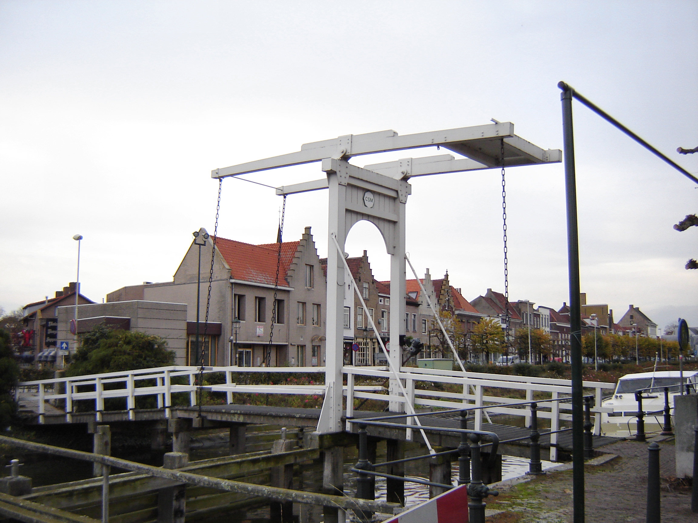 Drawbridge over the old Gent-Terneuzen Canal in Sas van Gent. Sas van Gent, Terneuzen, Zeeland, the Netherlands